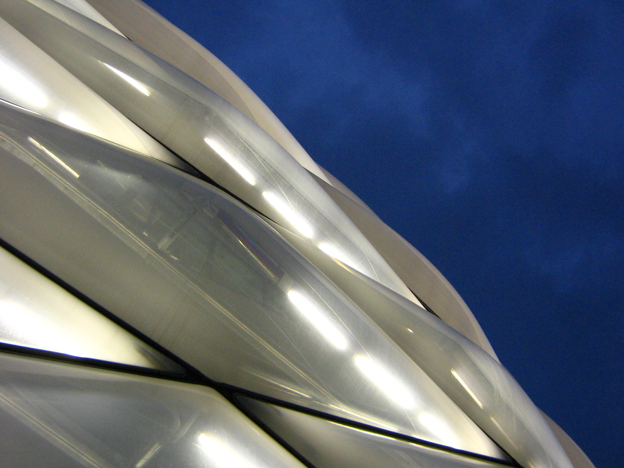 Allianz Arena ETFE-foil air panels. Photo taken by Stewart Damonsing.